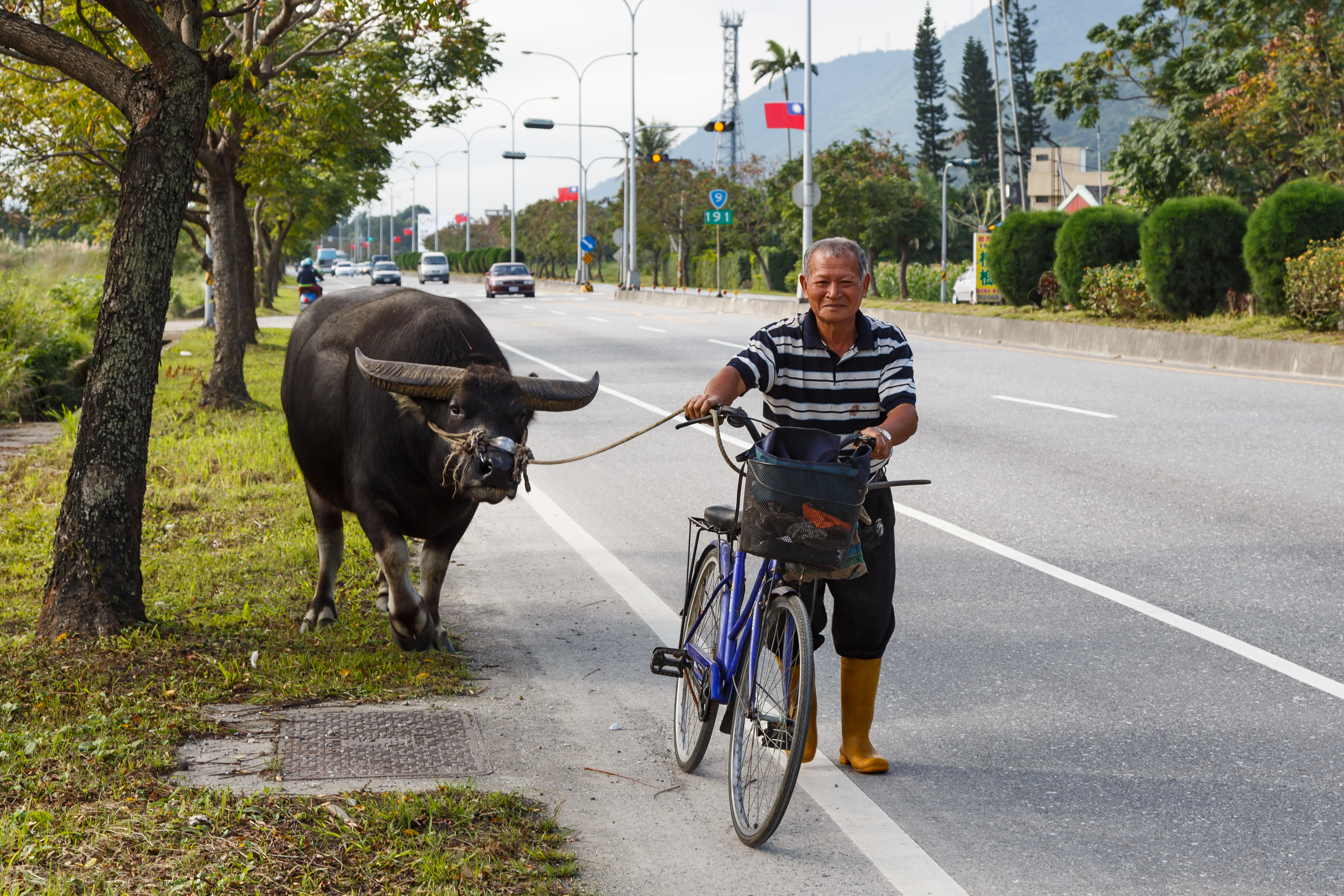 Hualien, Taiwan: A farmer takes his water buffalo to his rice field along provincial highway no. 9.